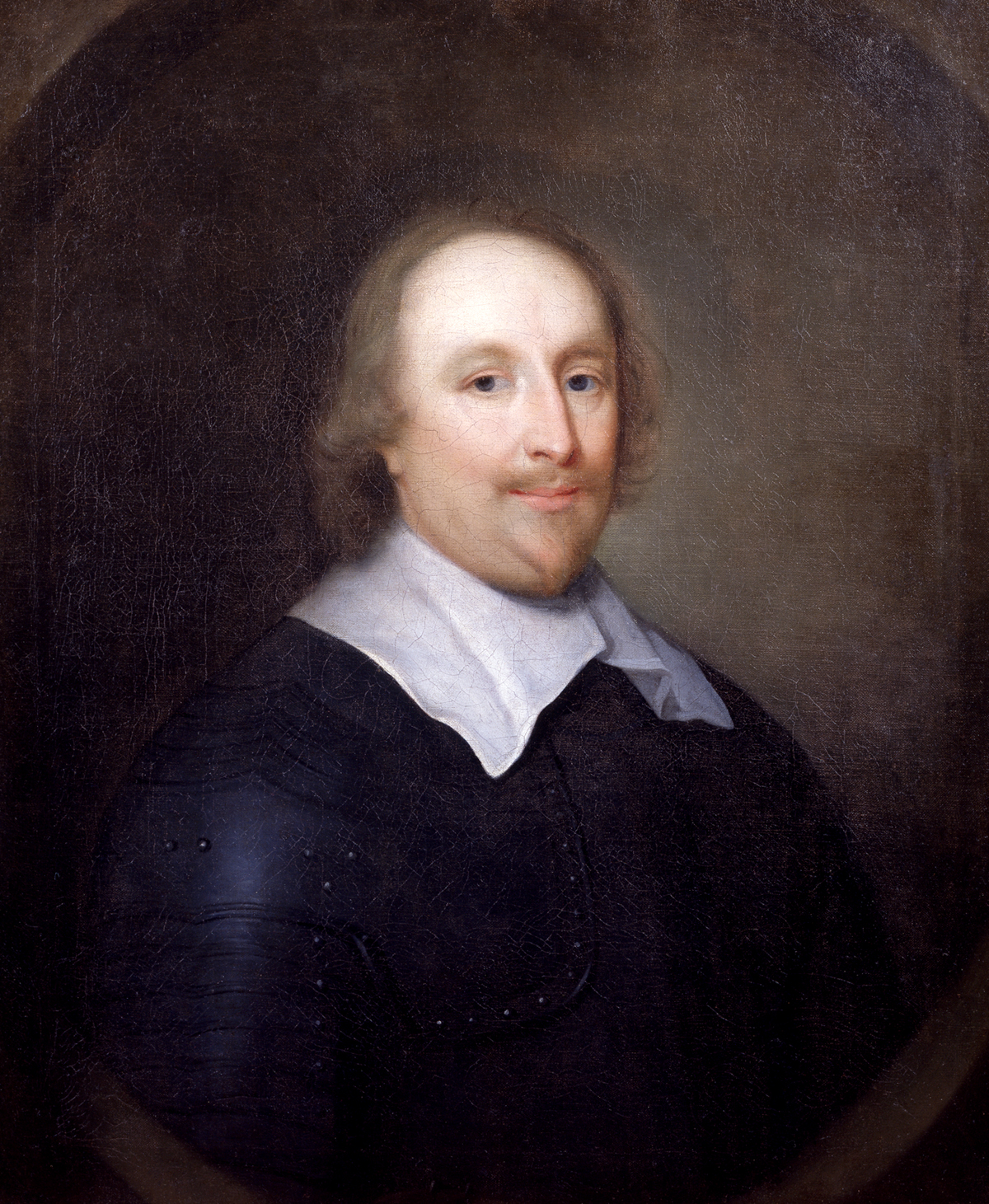 Portrait of William Lenthall (1591-1662)